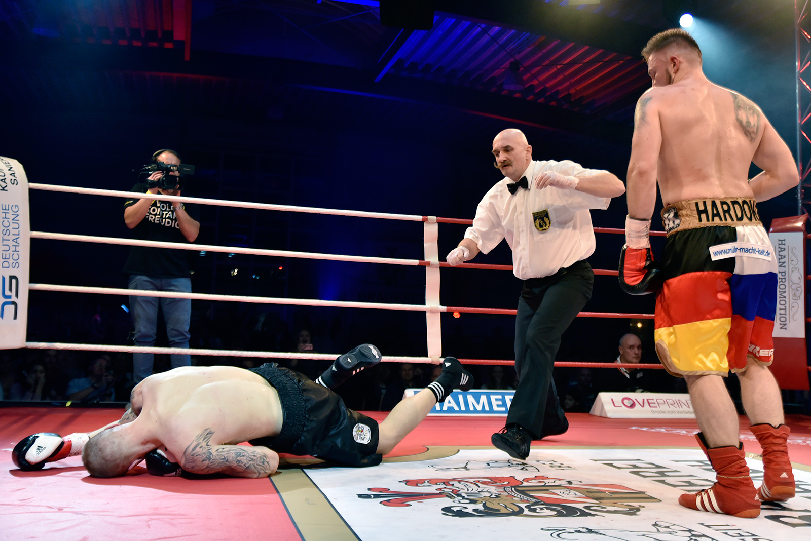 Box fight between Roman Hardok (right) and Jakob Jakobi for the German BDB interim championship on 2nd of December 2017 at Stockschützenhalle, Kühbach, Germany. The fight is halted by referee Bernd Hupfer with Hardok winning by knockout in round 2.